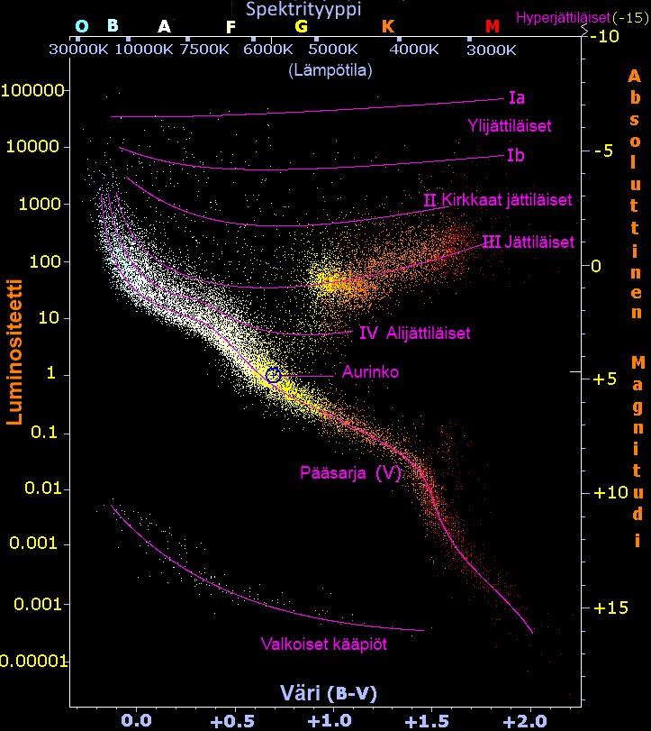 Hertzsprung-Russell diagram. A plot of luminosity (absolute magnitude) against the colour of the stars ranging from the high-temperature blue-white stars on the left side of the diagram to the low temperature red stars on the right side. Converted to png.